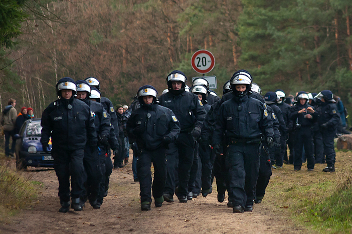 Castor 2011: Action days into the wood. Wendland, Germany